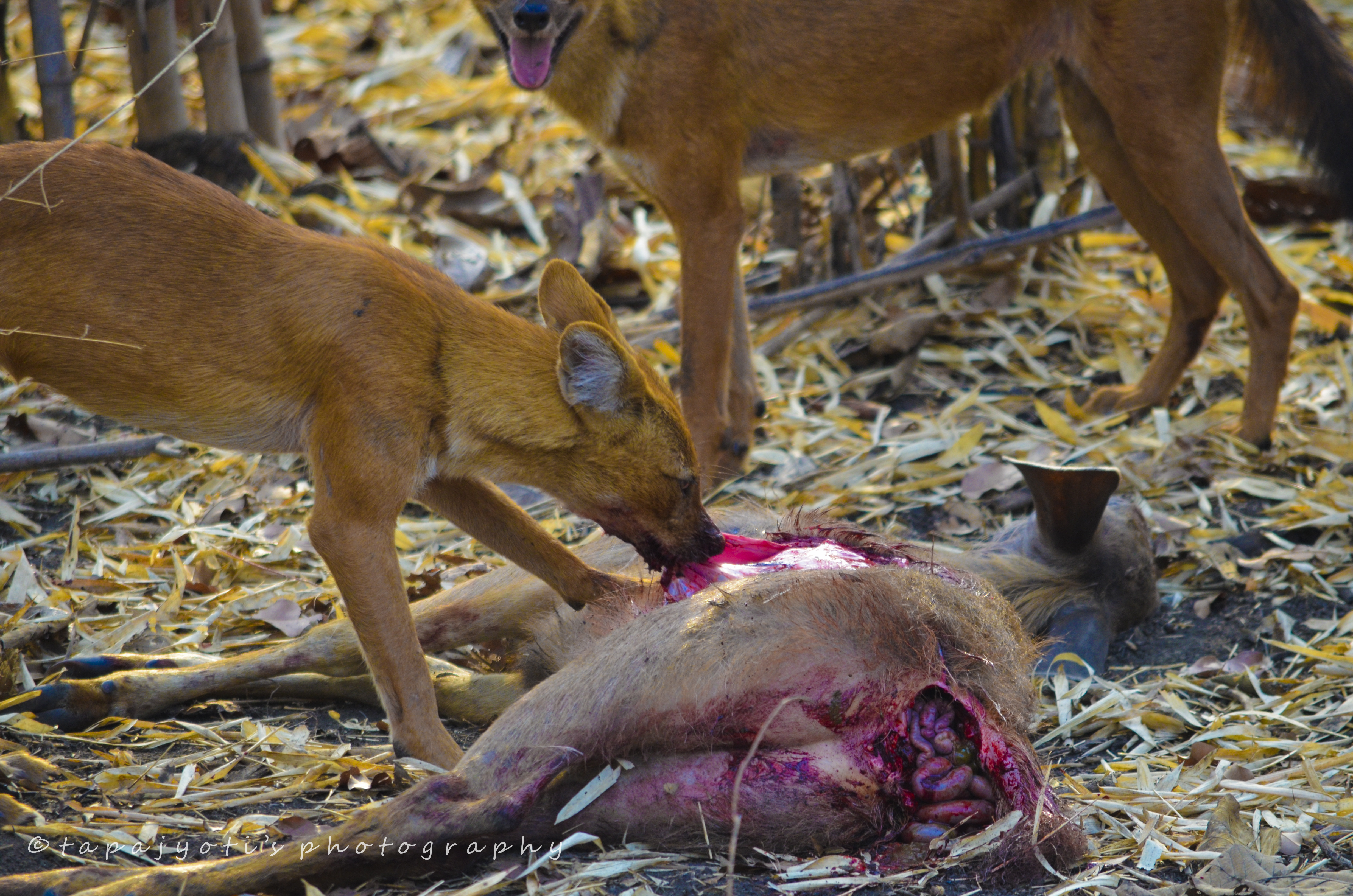 wild dogs (dhol) in Tadoba, maharashtra